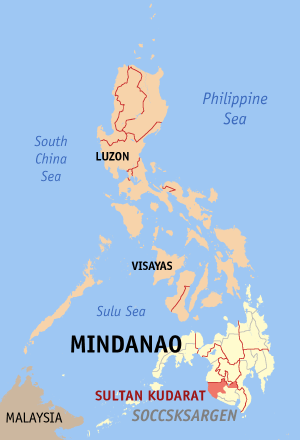 Map of the Philippines showing the location of Sultan Kudarat